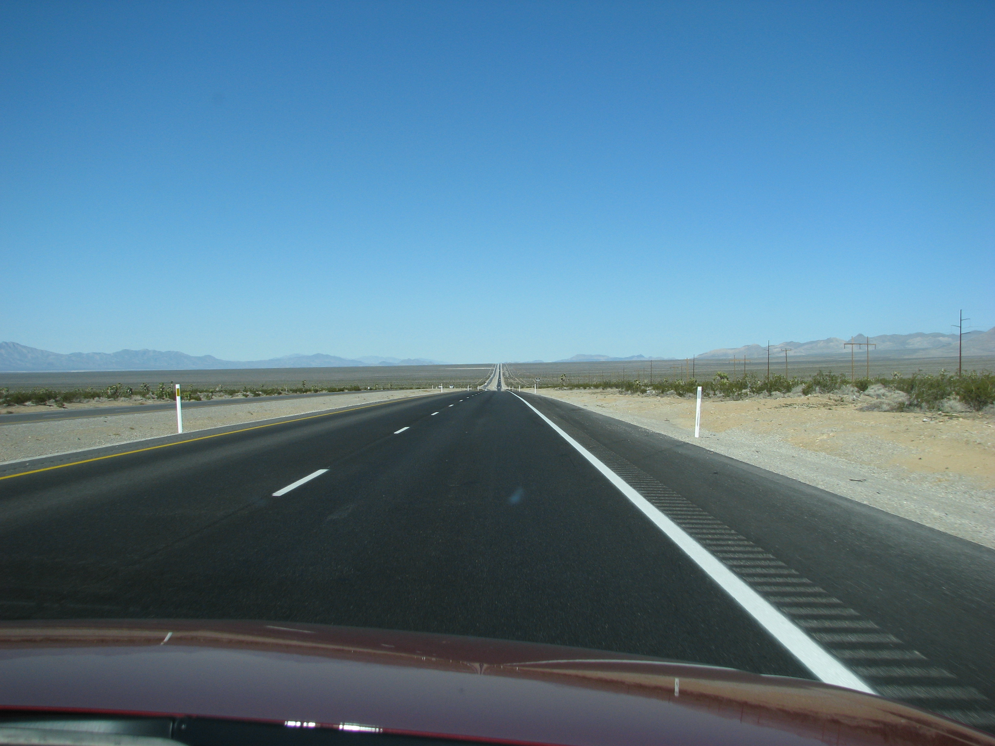 Nv-160 (north/westbound) on the freeway part, somewhere between Mountain Springs and Pahrump.